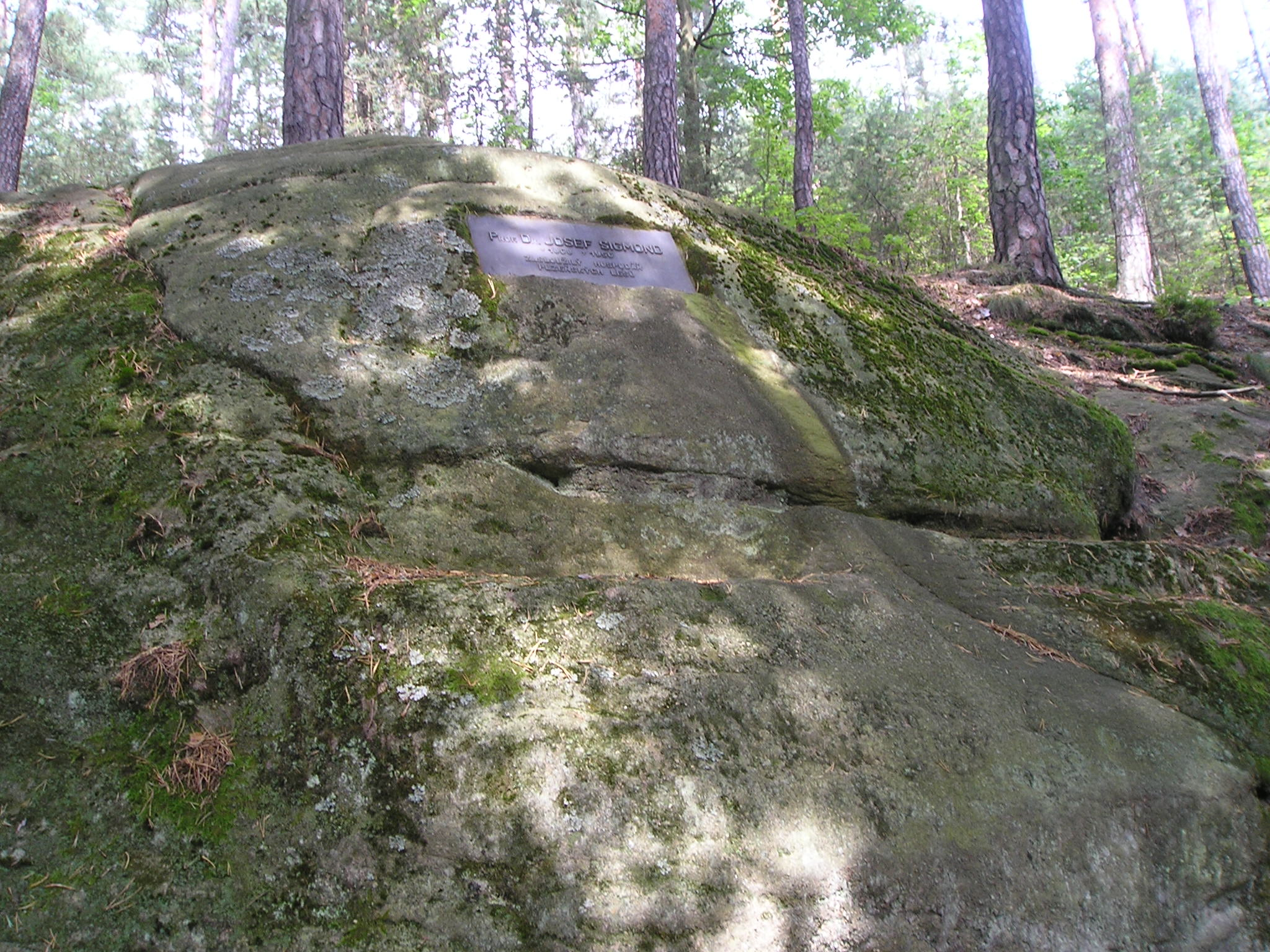 Prof. Sigmond´s memorial schedule at Bolevec